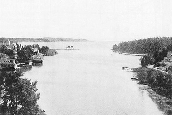 View from Nynäs (Fagerviken), the scene of the Olympic Yacht Racing.